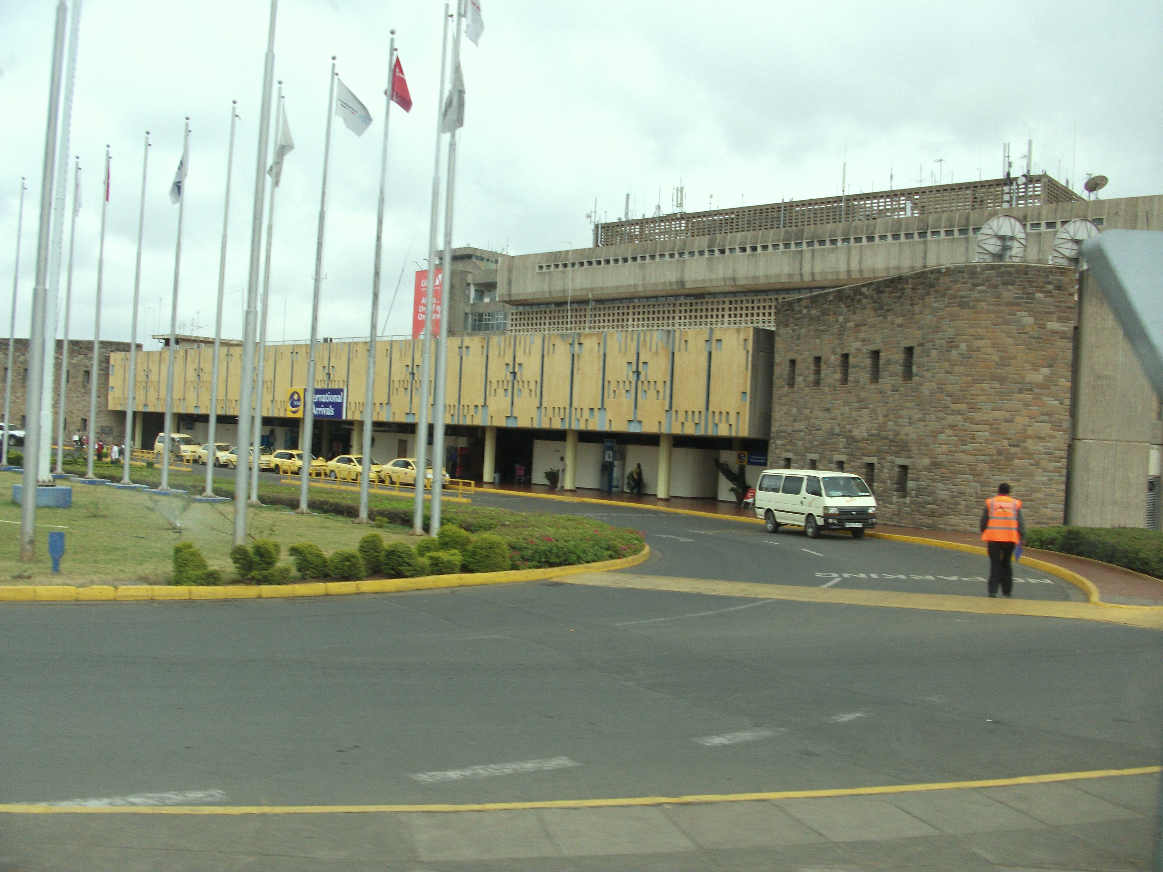 Arrival Terminal at Nairobi Airport